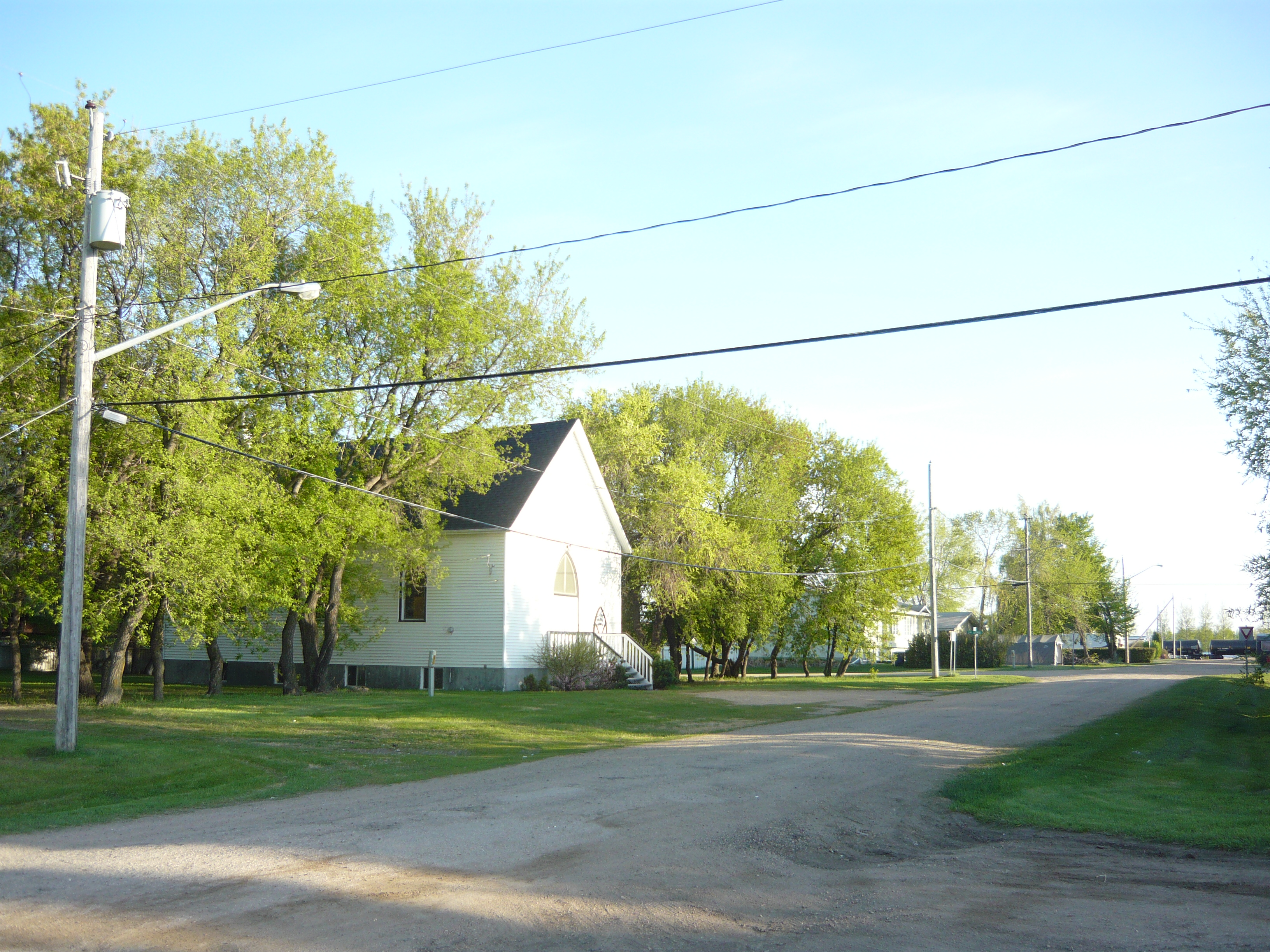 Clavet United Church (1908), Queen Street, Clavet, Saskatchewan, Canada